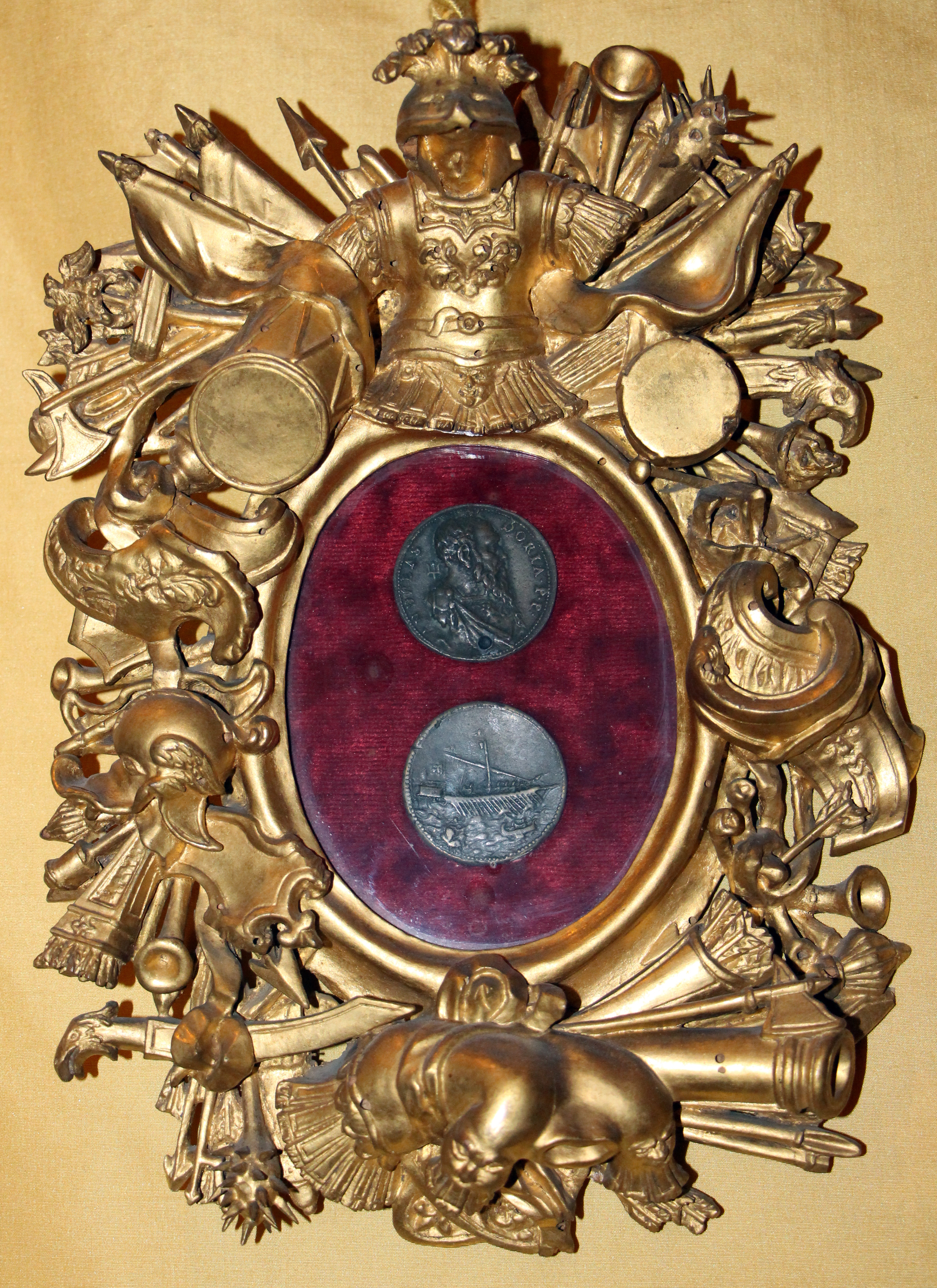 Interior of the Villa del Principe (Genoa) - Hall of the Zodiac